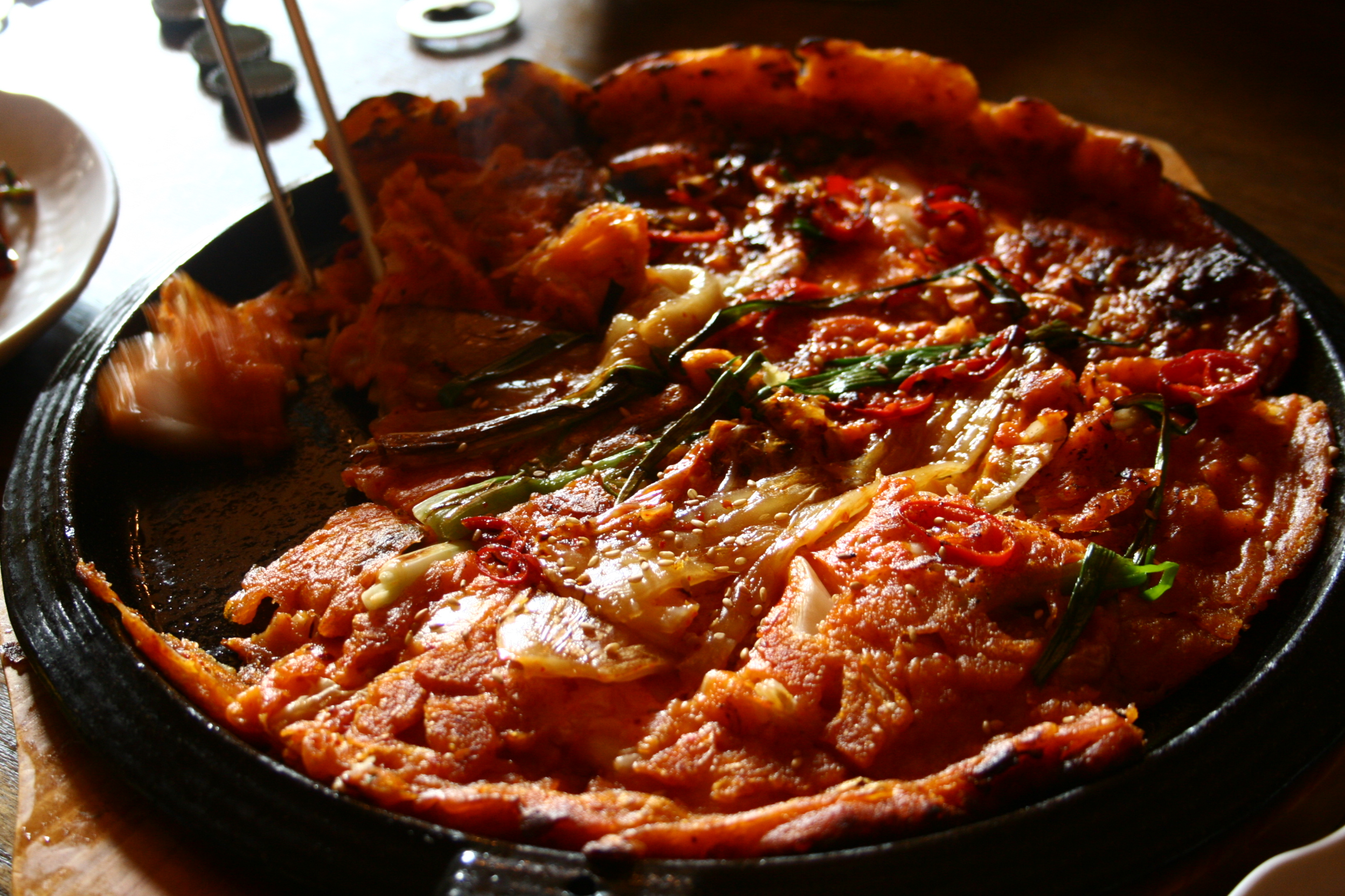 Kimchi in panecake